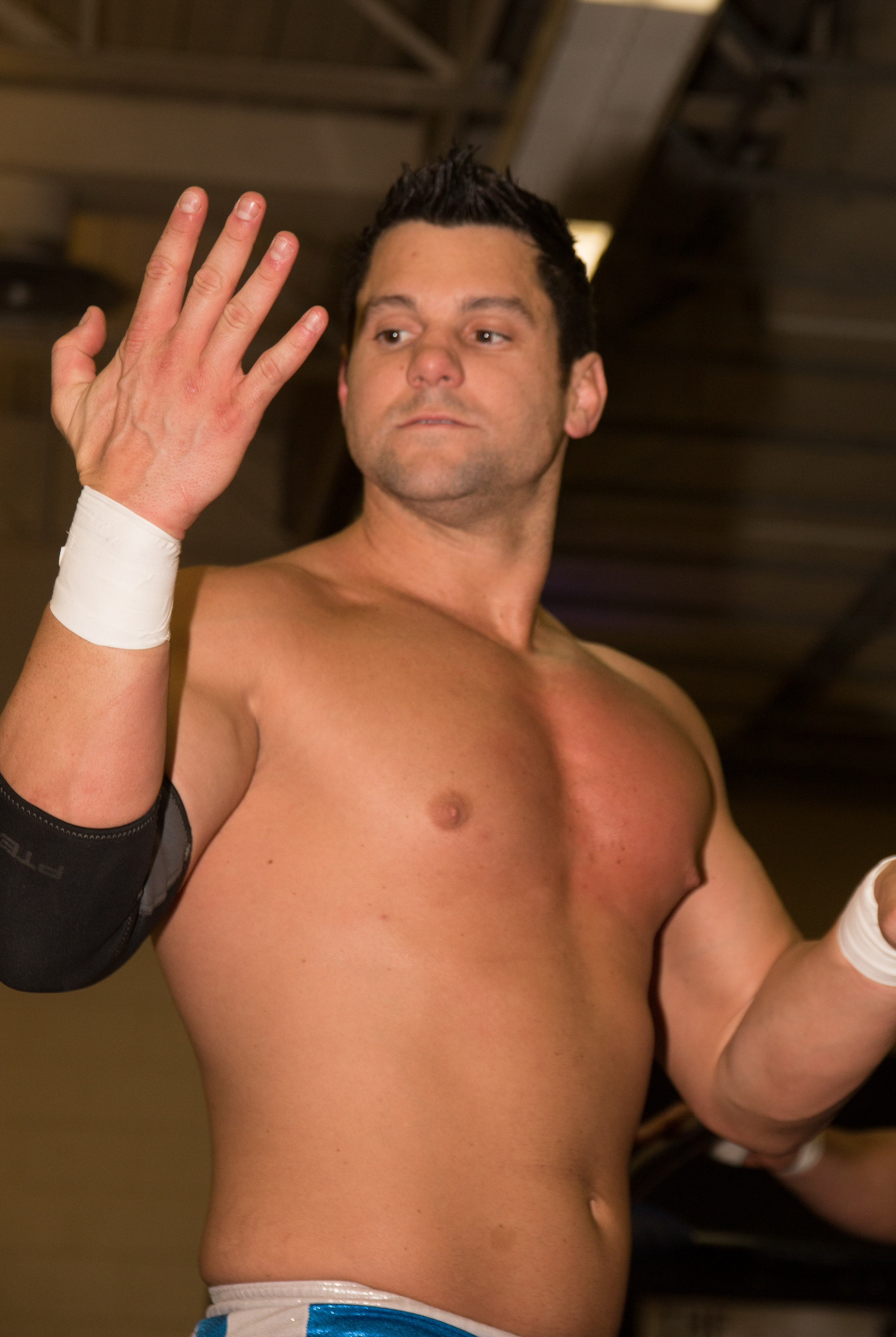 Eddie Edwards reacting during a match at a Smash Wrestling show in Etobicoke, ON